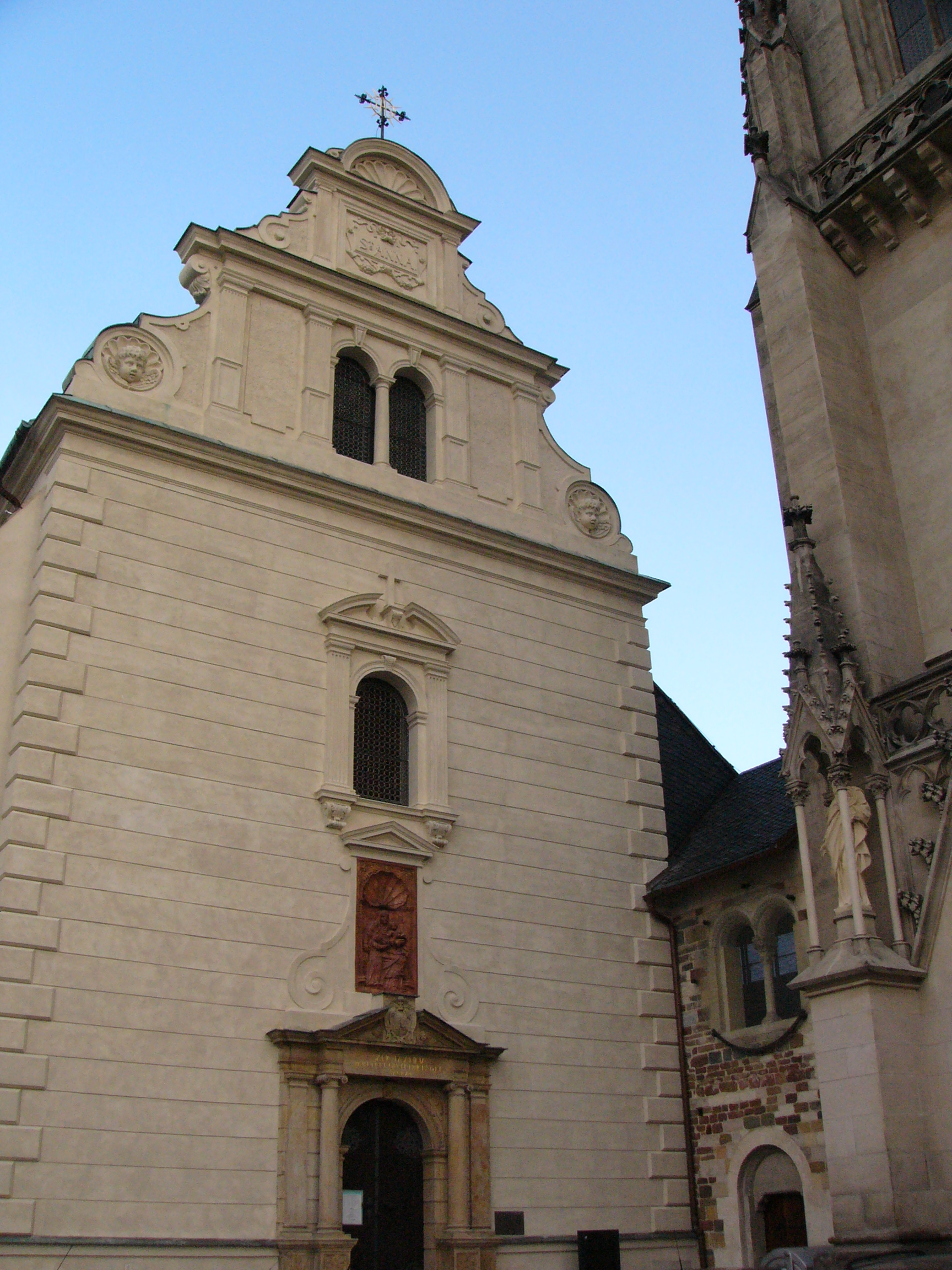 church of saint Anna in Olomouc ( Olomouc, Czech Republic).